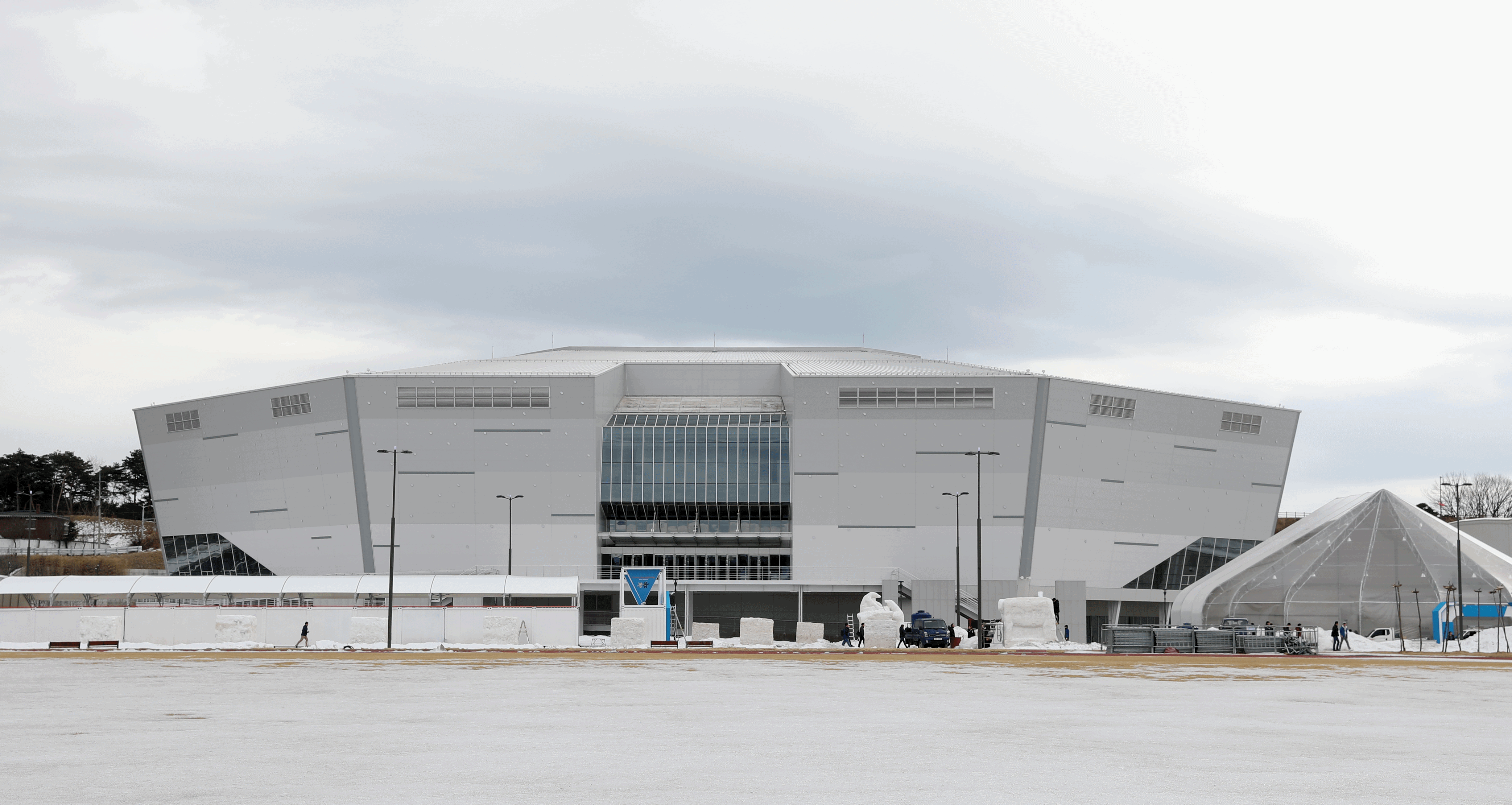 Gangneung Hockey Center